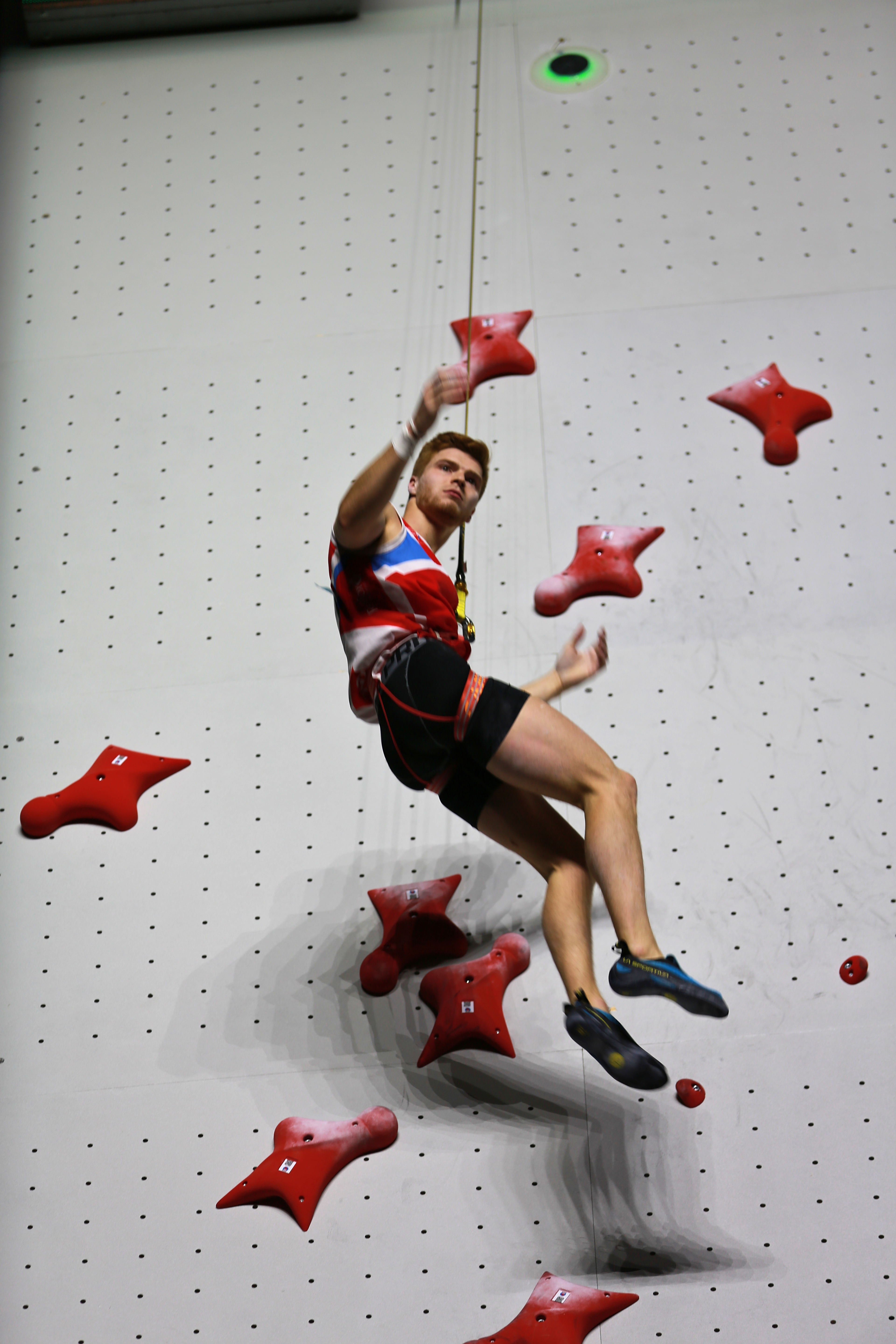 Climbing World Championships 2018 Speed Eighth-finals